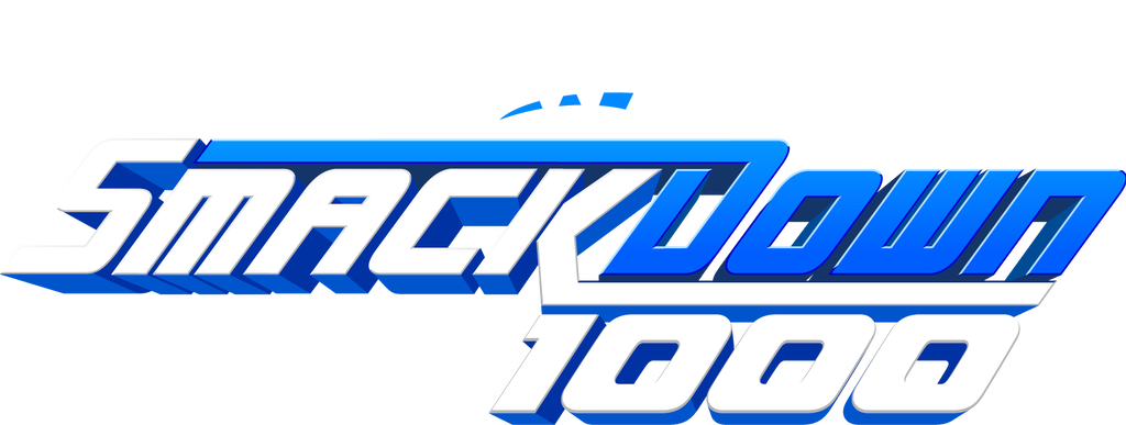 SmackDown's 1000 logo